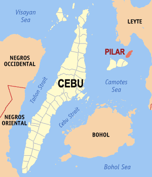 Map of Cebu showing the location of Pilar